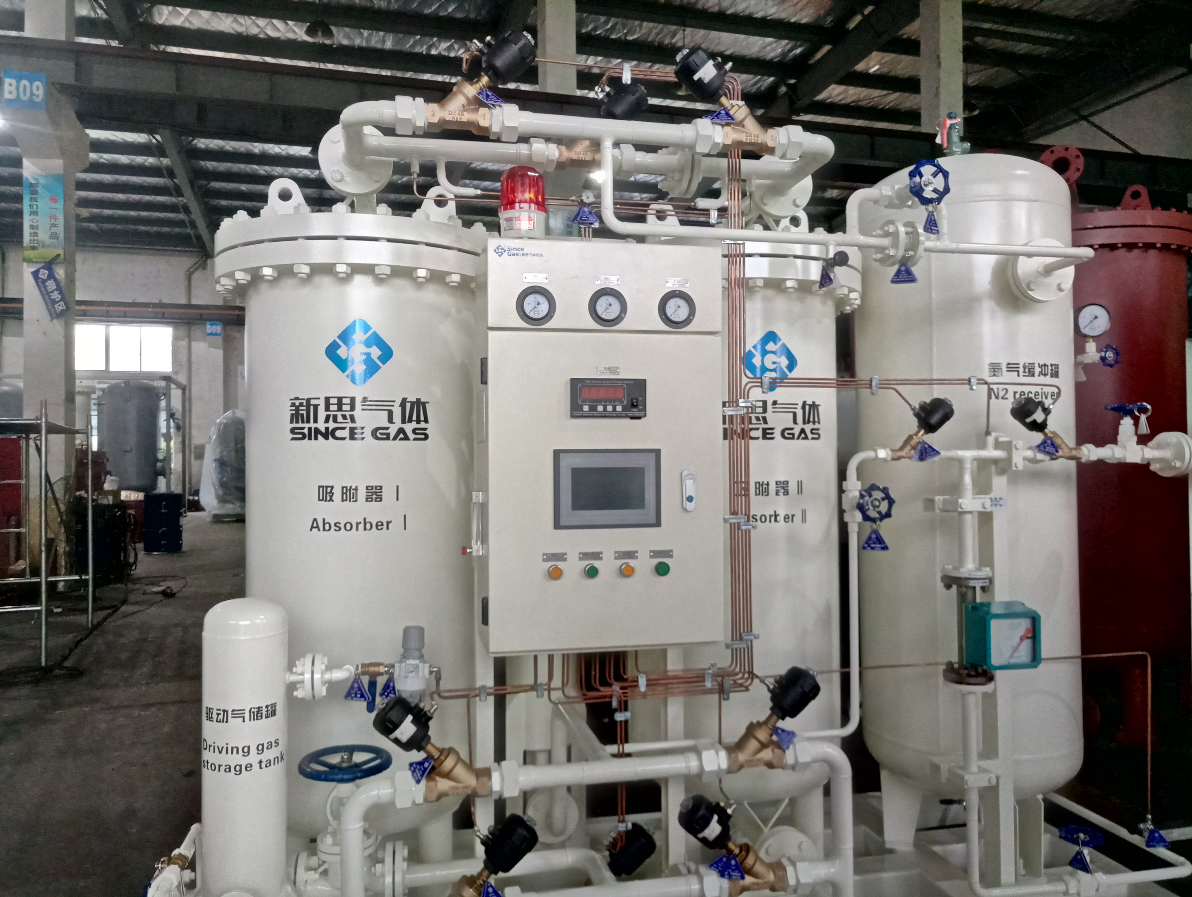 A PSA nitrogen generator has two adsorbers and one buffer tank